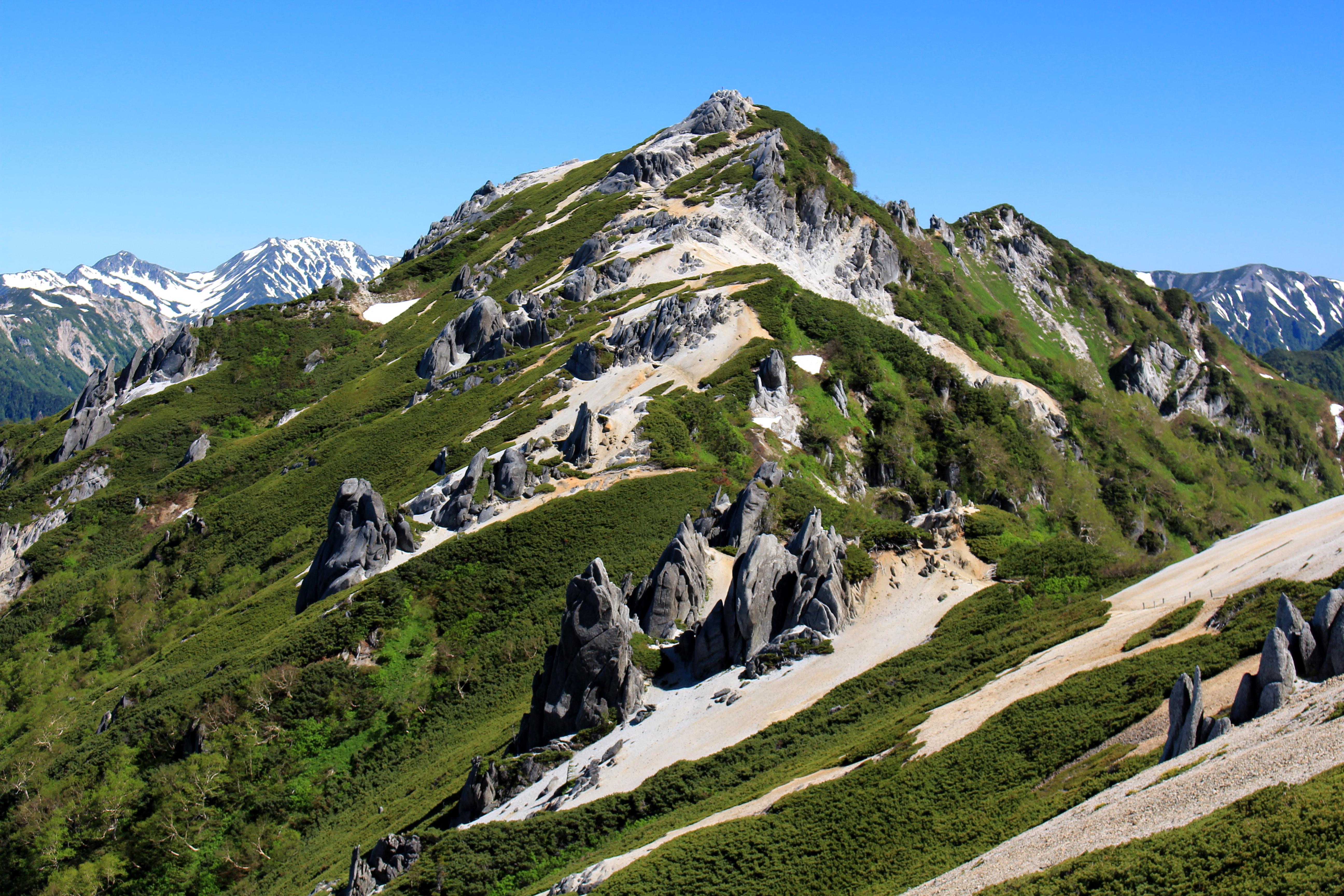 Mount Tsubakuro seen from Ensansō in Hida Mountains, Nagano prefecture, Japan.